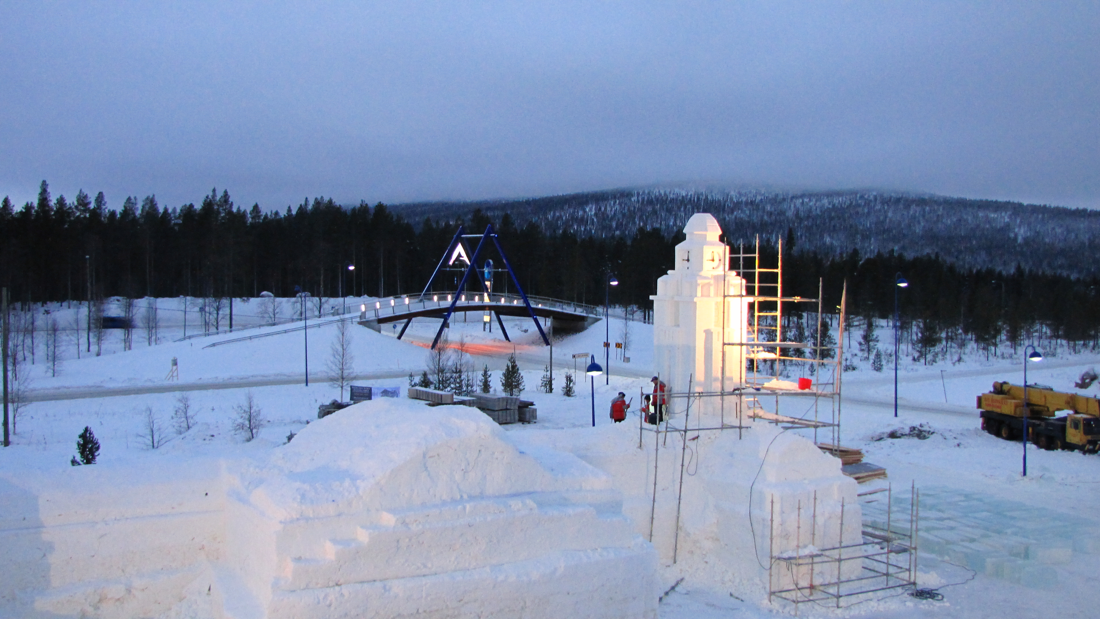 Helsinki Central Railway station made from snow under construction in ICIUM Wonderworld of Ice in Levi, Kittilä, Finland.